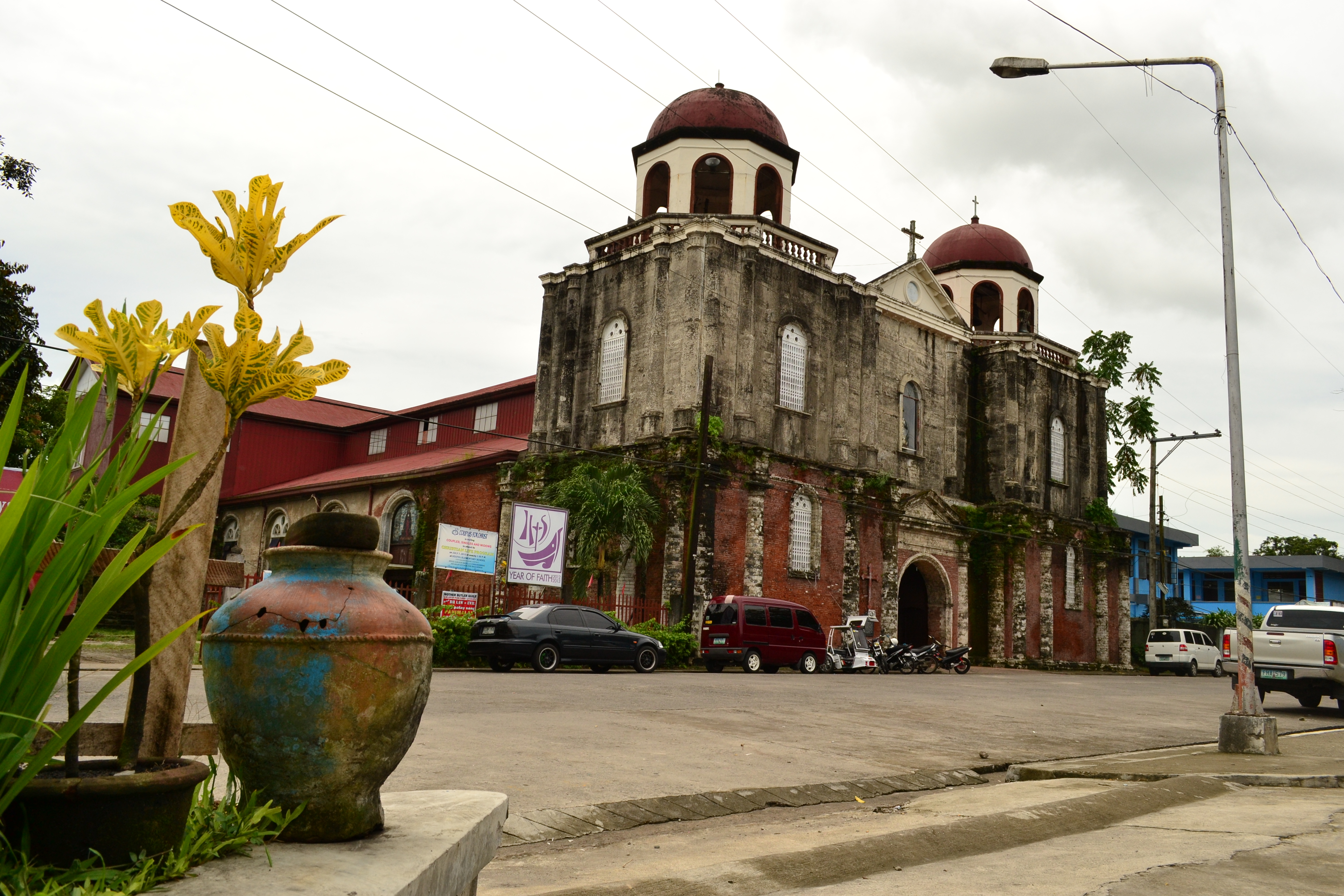 During 1870, this church was made by bamboo and other lite materials. To be more safe and conducive for any religious contemplation, Father Eustaquio Cascarro their First Parish Priest decided to renovate the church in 1876. Faithful from all walks of life were helping to fix it with corals and other robust materials from Silay City, it was finished in 1877.